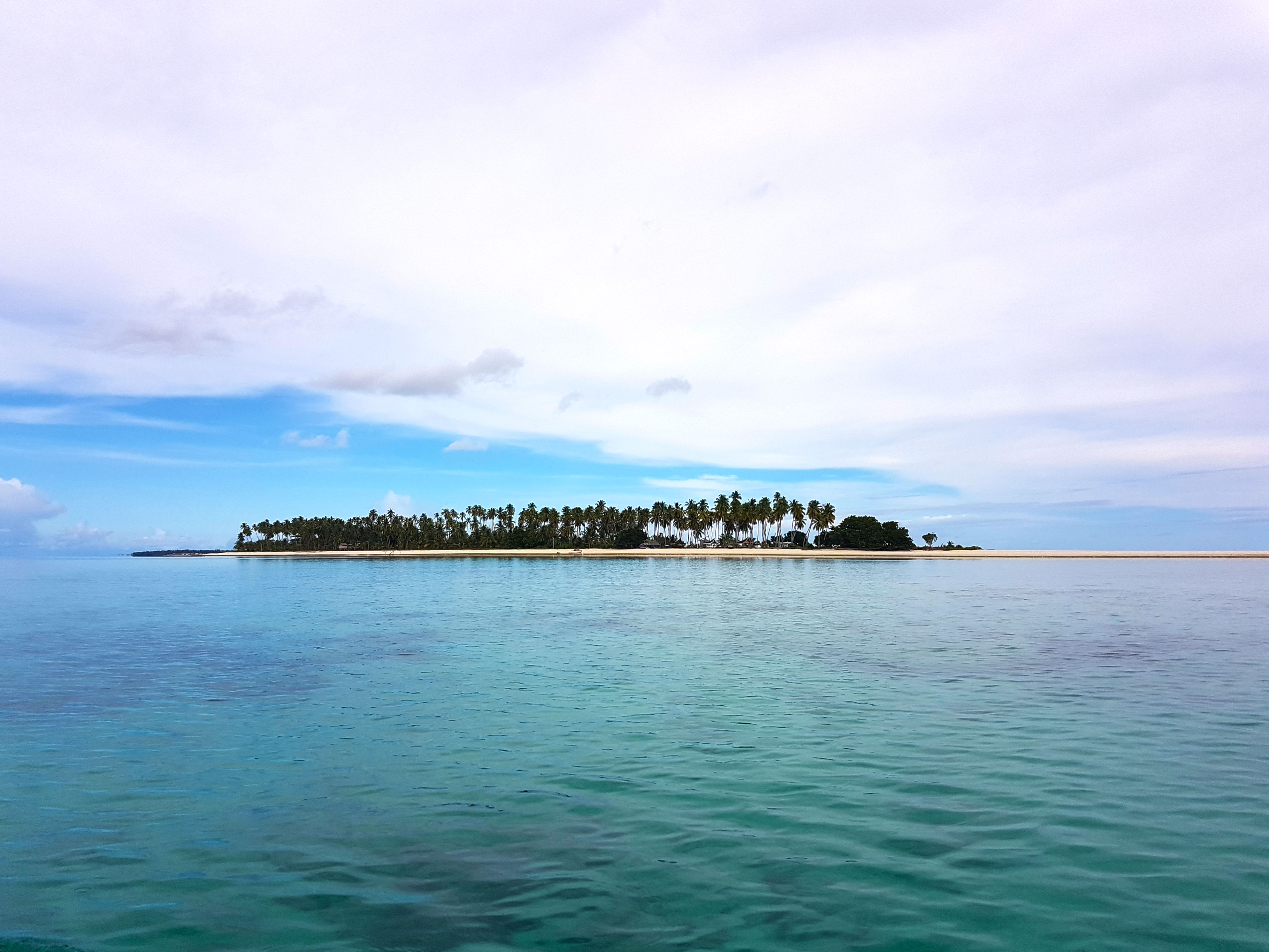 Panampangan island is located at the Basibuli Reef and possesses longest sandbar in the Philippines at the province of Tawi-Tawi. This was taken using the joint mapping, reconnaissance, and deployment mission of the Philippine Marine Corps and Schadow1 Expeditions